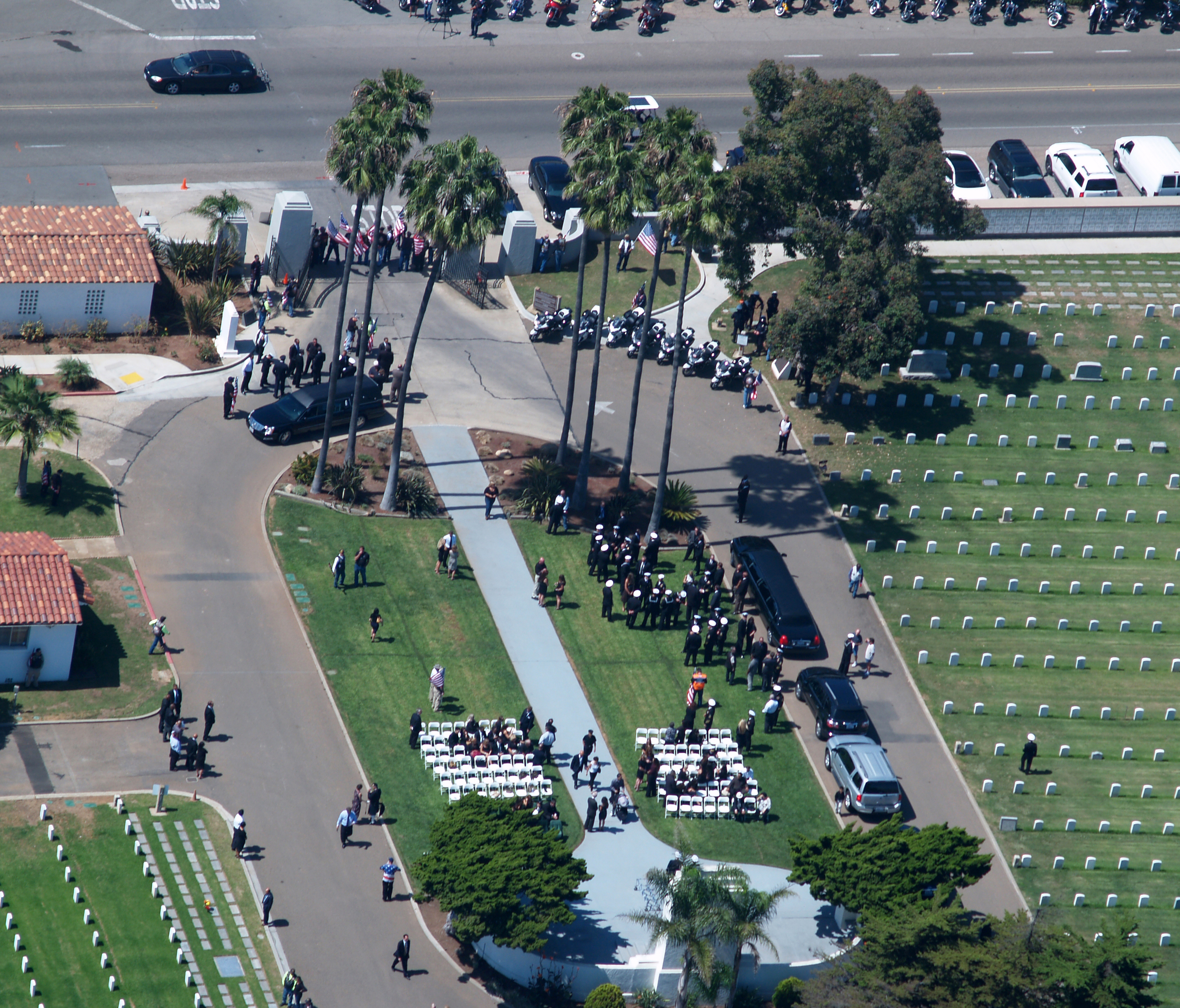 Aerial view of the funeral for Tyrone S. Woods at Fort Rosecrans Cemetery in San Diego, California. September 20, 2012. Please acknowledge "Phil Konstantin" as the creator of this photograph.